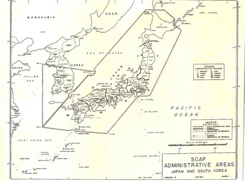 SCAP Administrative Areas Japan and South Korea